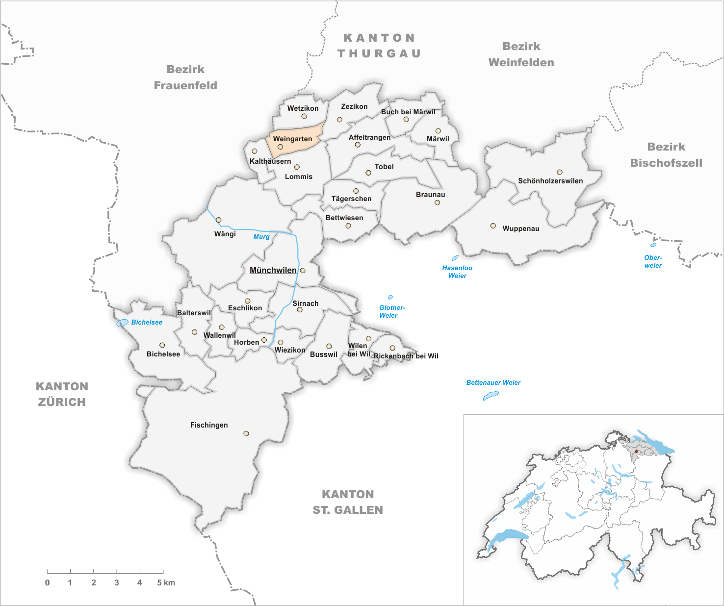 Municipality Weingarten